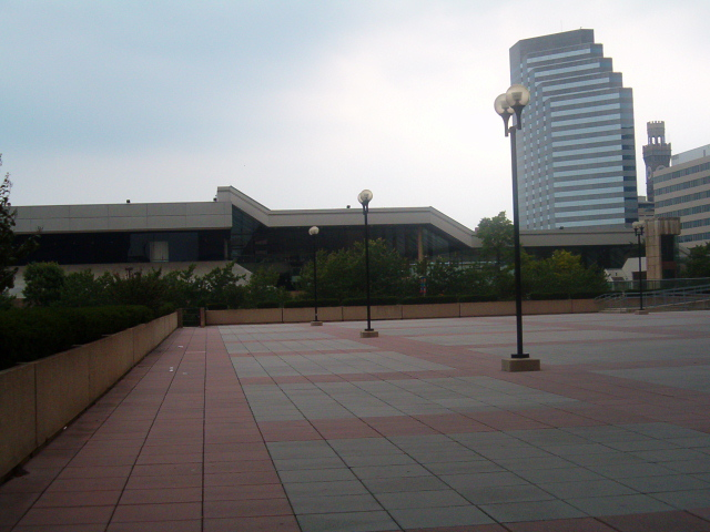 A picture of the Baltimore Convention Center as viewed from a skywalk leading from the Inner Harbor that I took in 2004.